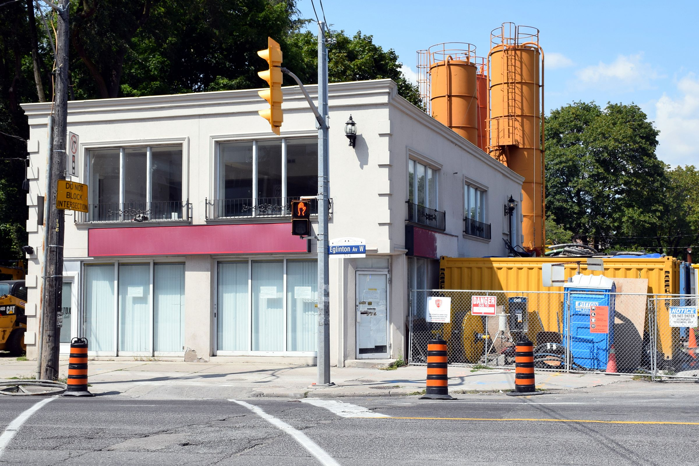 Eglinton Crosstown LRT station site